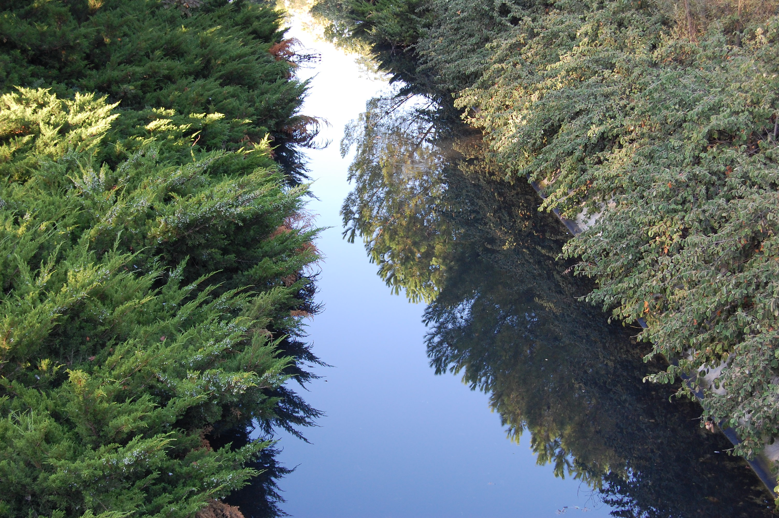 Stream in Pradolongo Park